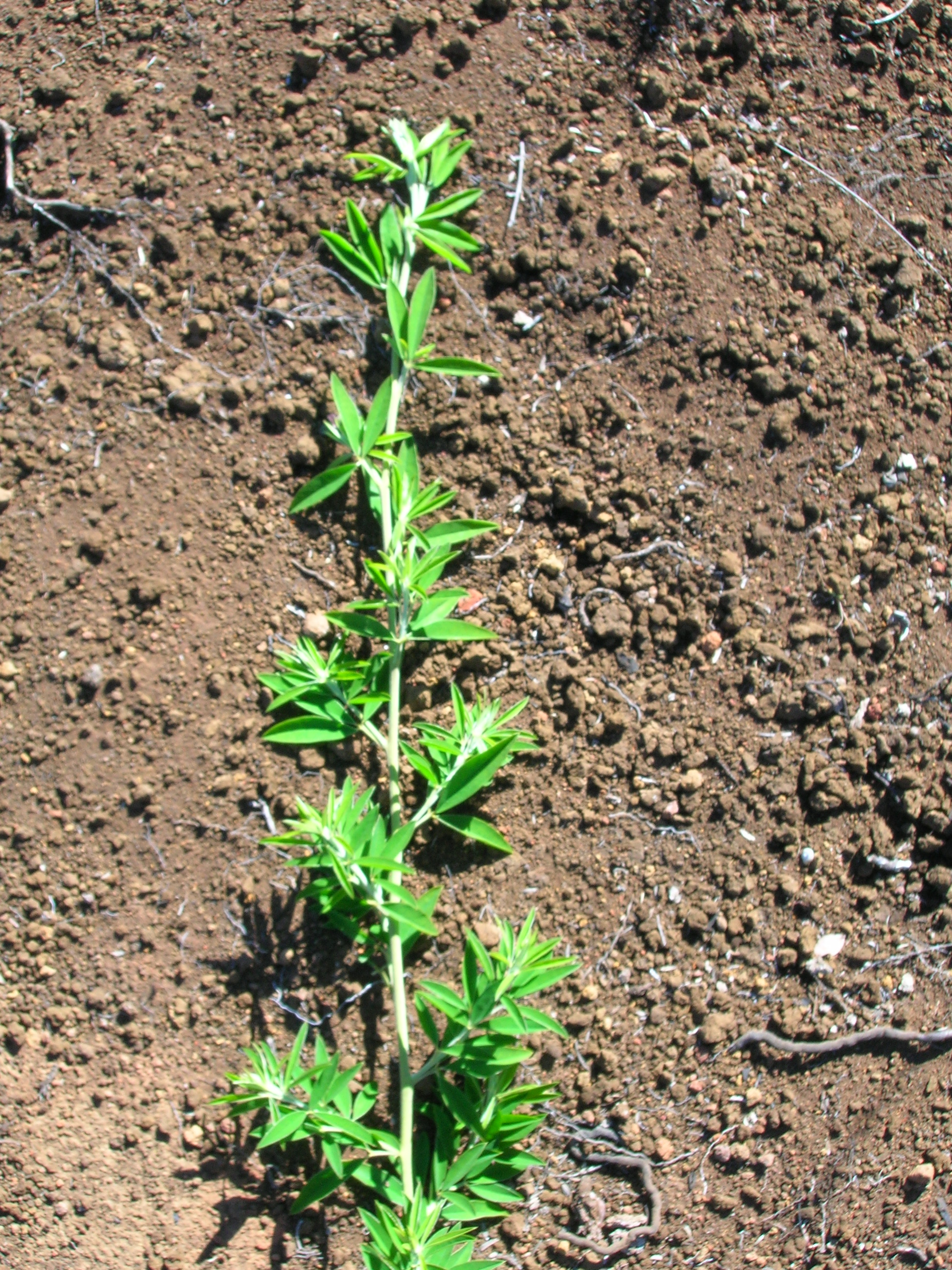 Cytisus palmensis (leaves). Location: Maui, Pohakuokala Gulch